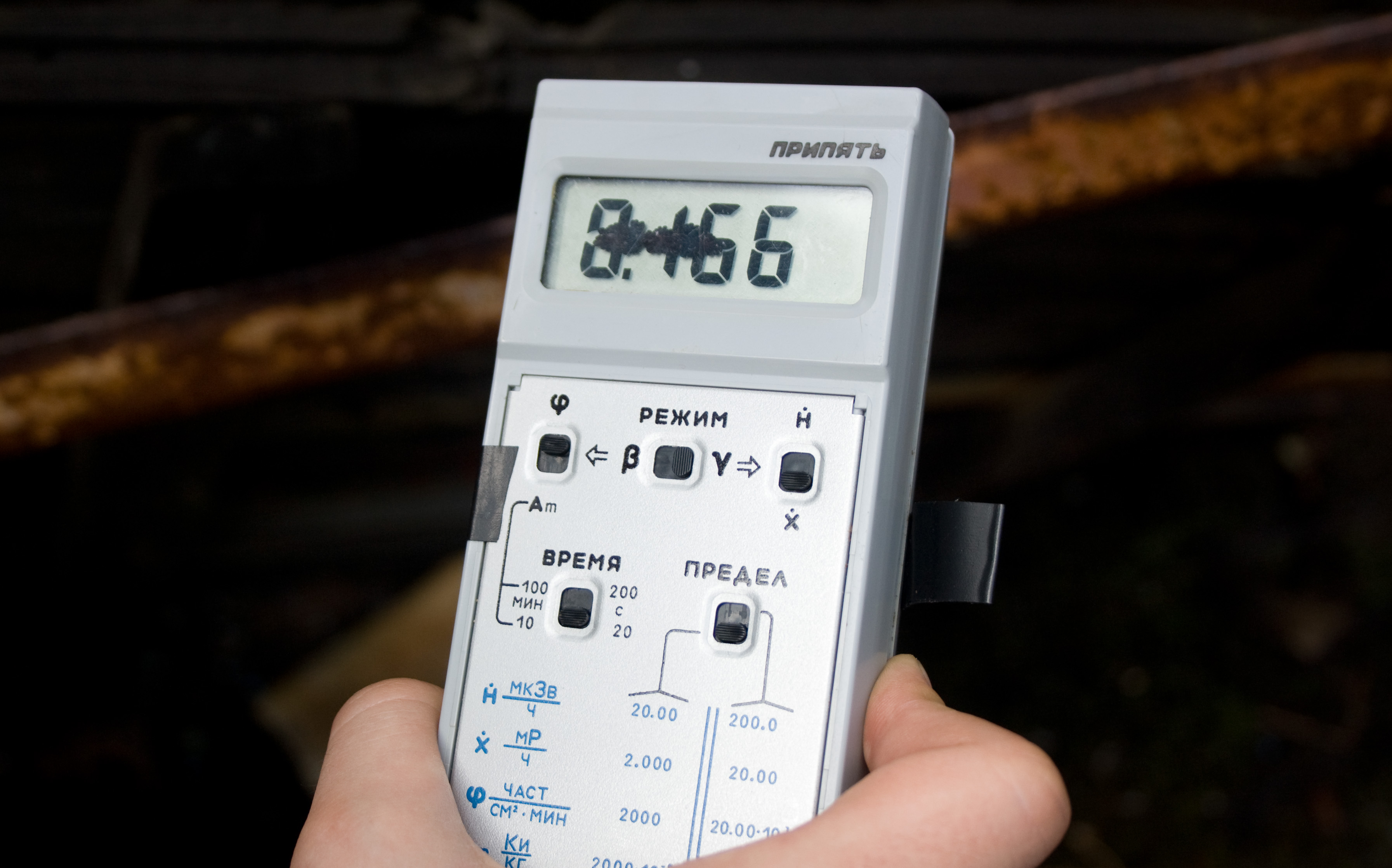 Pripyat, Chernobyl nuclear power plant area, Ukraine